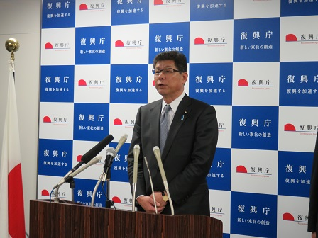 Tsuyoshi Takagi, Minister for Reconstruction, addressed at the Sankaido Building in Minato Ward, Tōkyō Metropolis on January 4, 2016.